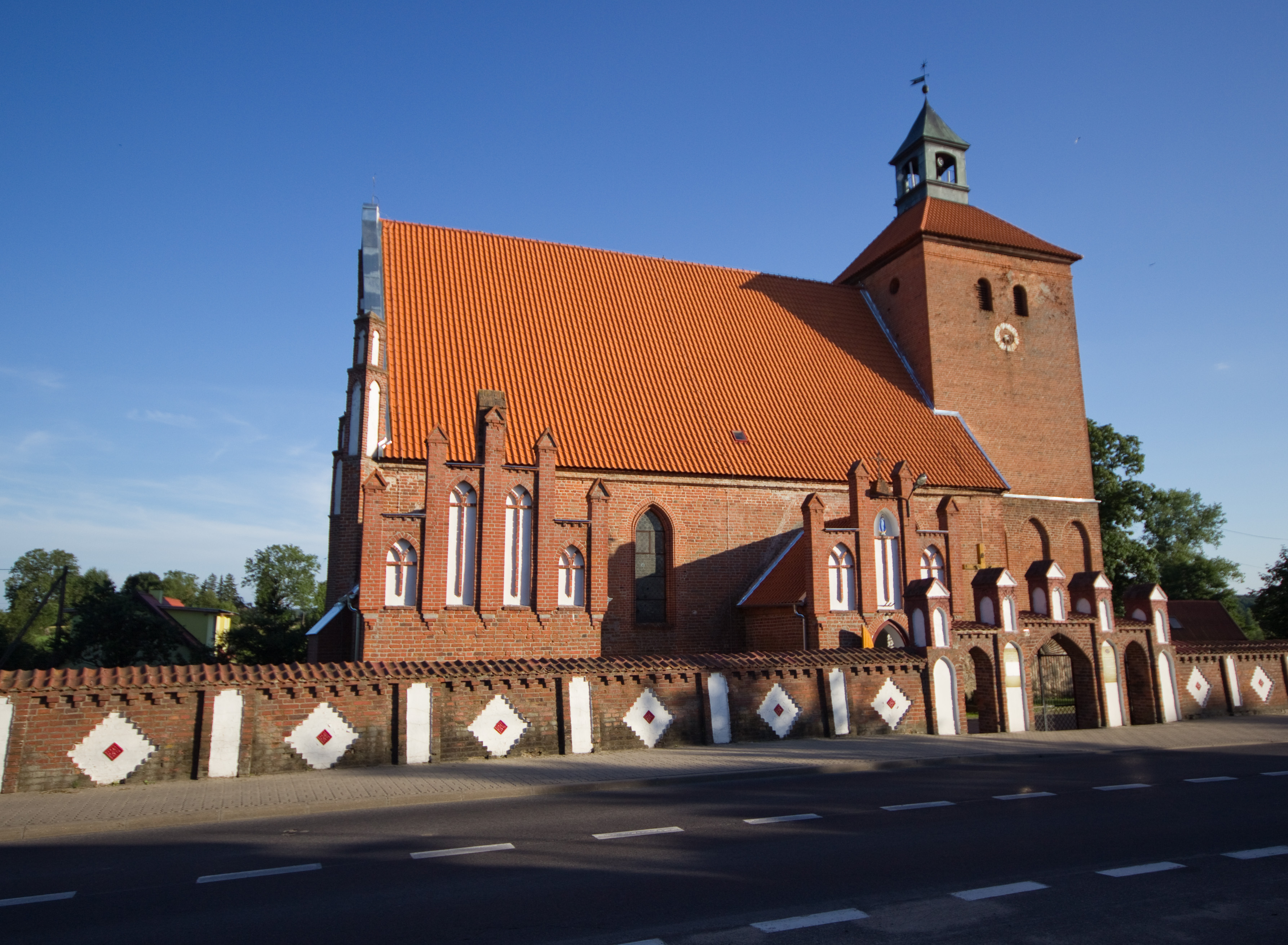 Church, Rogóż, gmina Lidzbark Warmiński, powiat lidzbarski, Warmian-Masurian Voivodeship